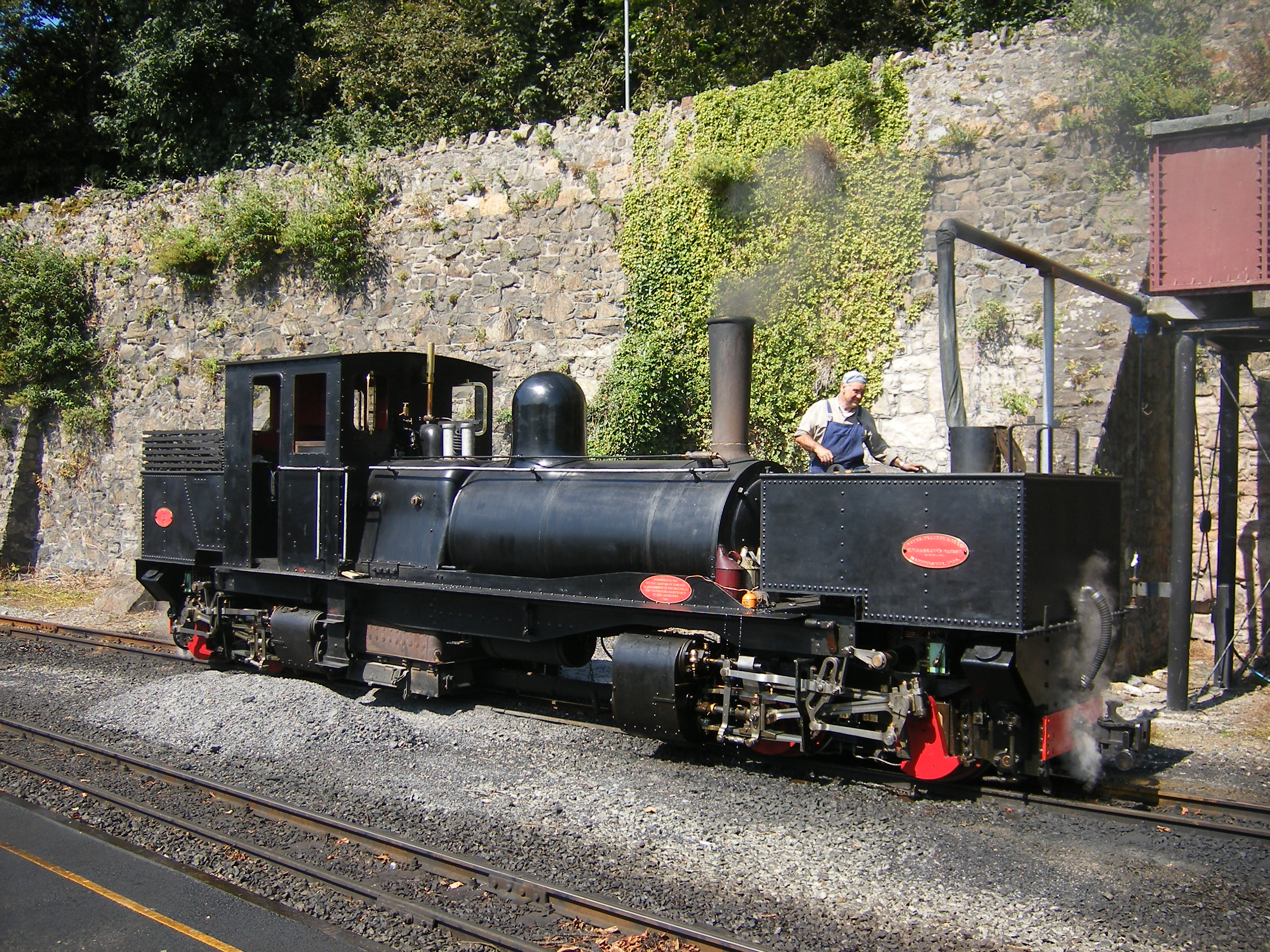 Welsh Highland Railway K1, the world's very first Garratt steam locomotive, taking water at Caernarfon station.